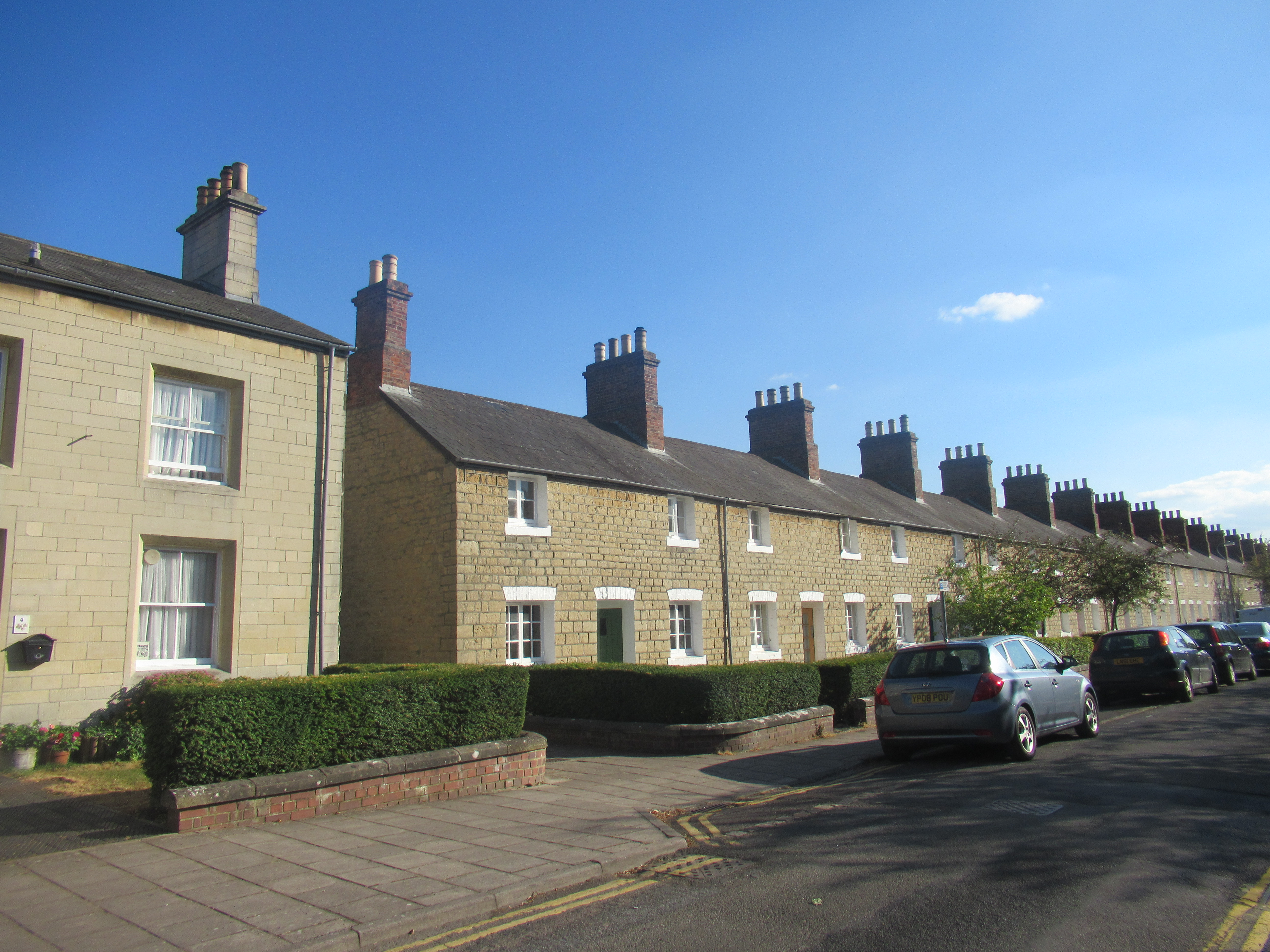 houses in the railway village in swindon, these were built in the 1850s.